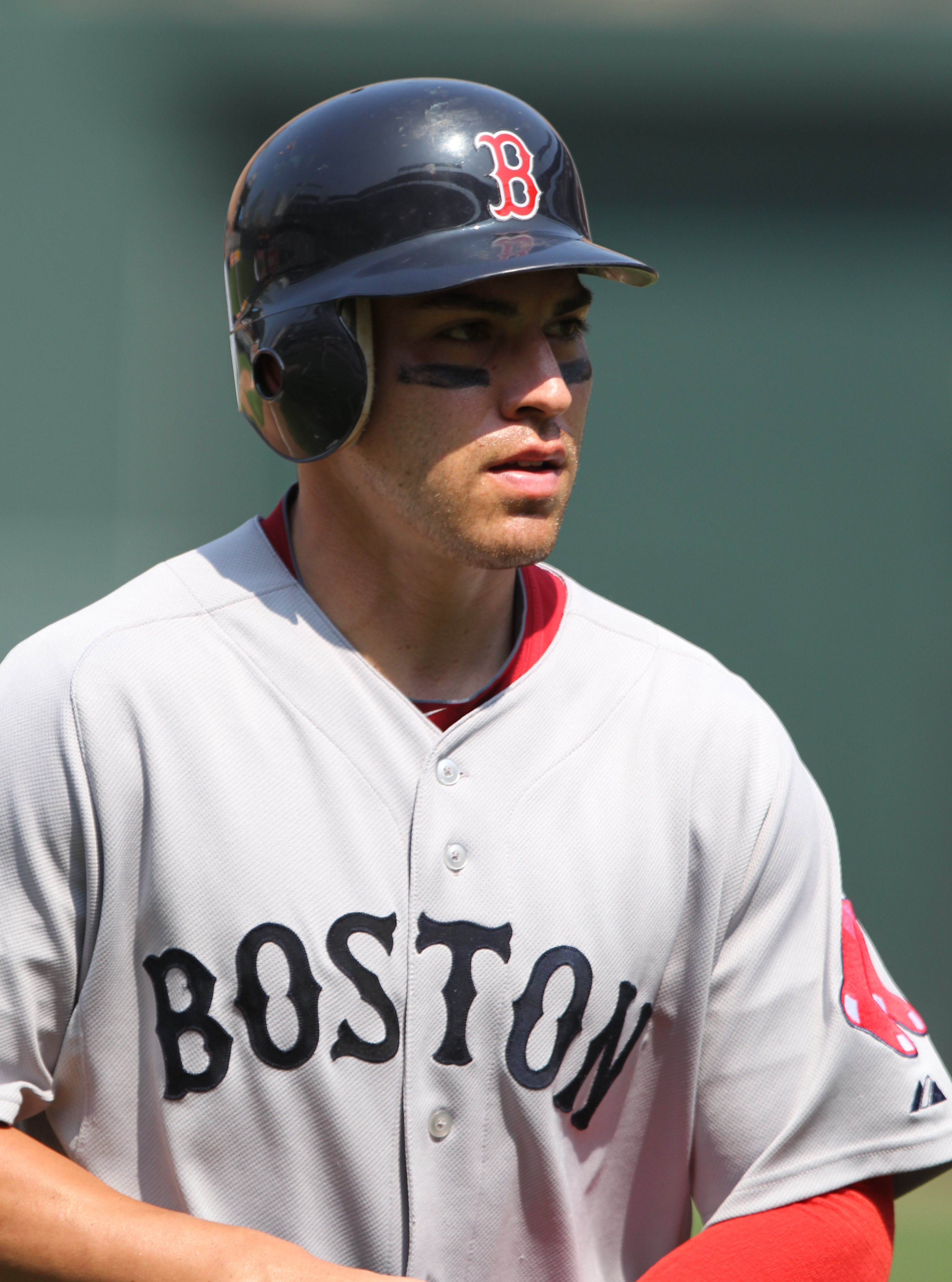 Red Sox at Orioles July 20, 2011.